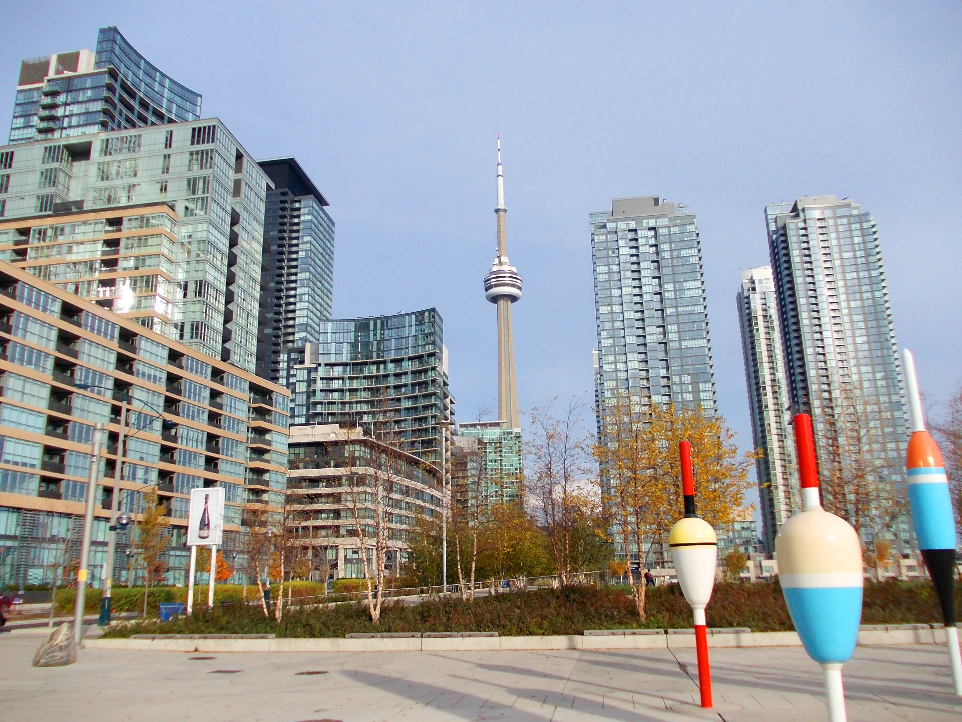 CN Tower and Toronto skyscrappers